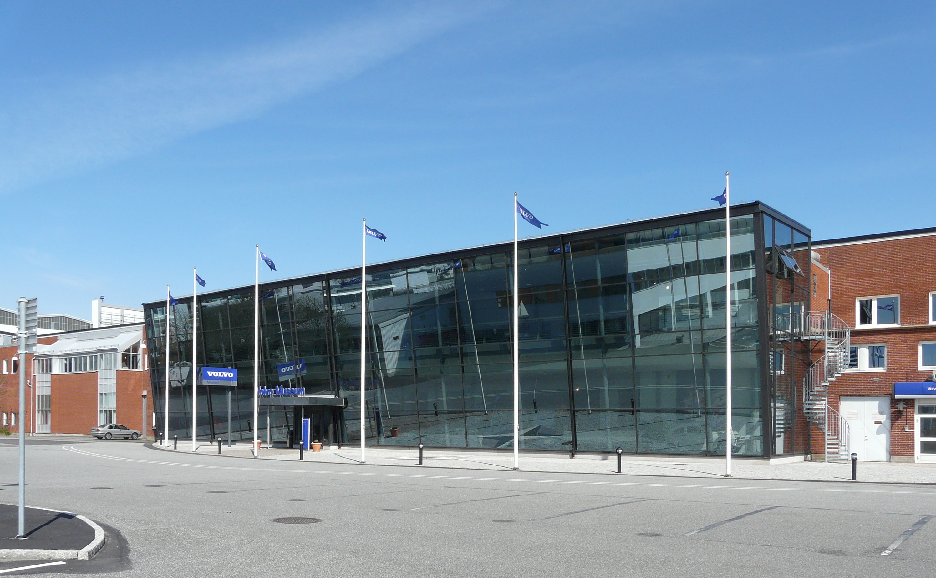 Facade of the Volvo Museum — in Arendal, Göteborg, western Sweden.